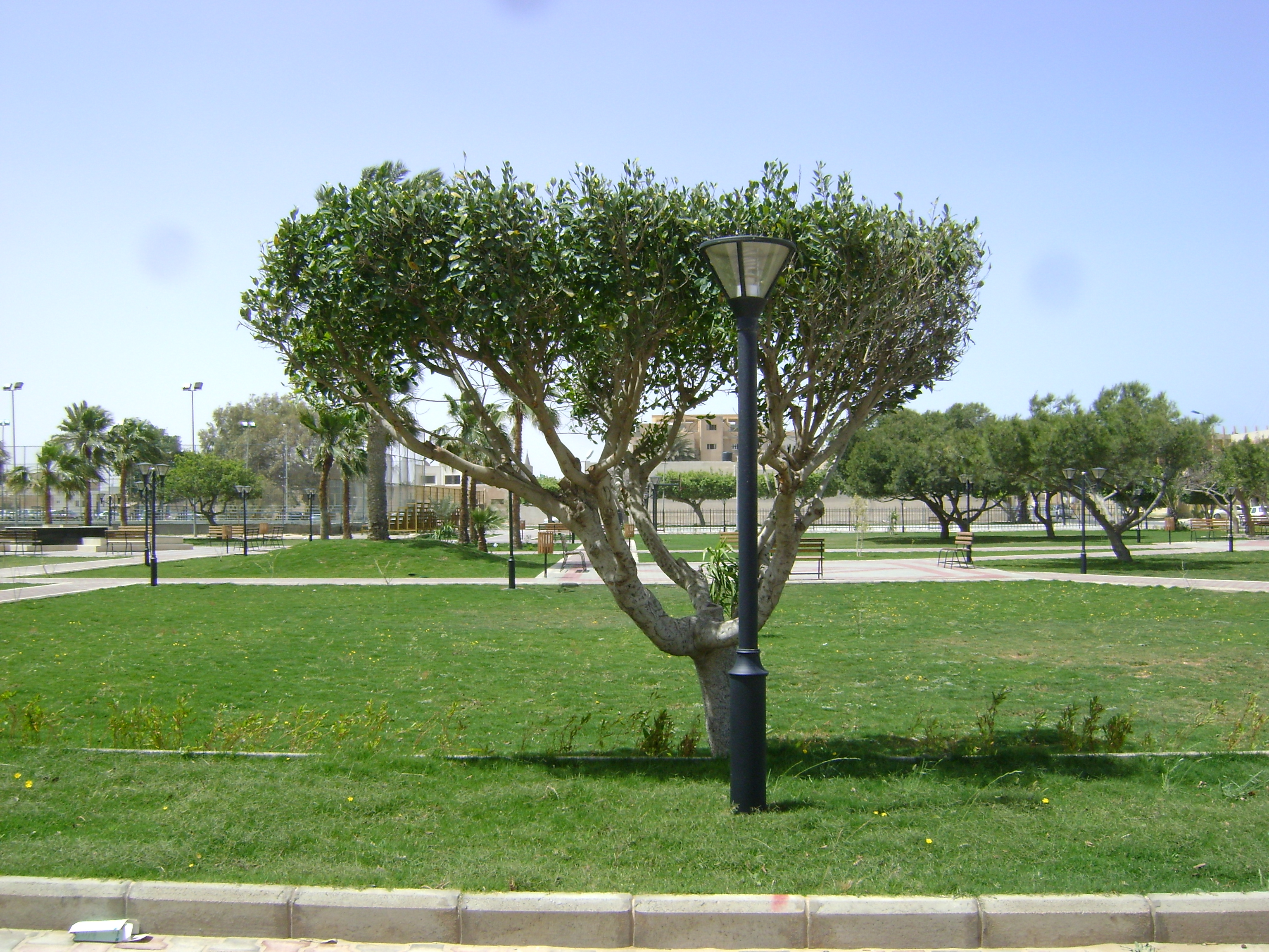 Zuwara garden